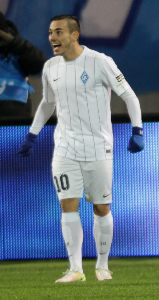 Cristian Pasquato with FC Krylia Sovetov Samara in a game against FC Zenit St. Petersburg.